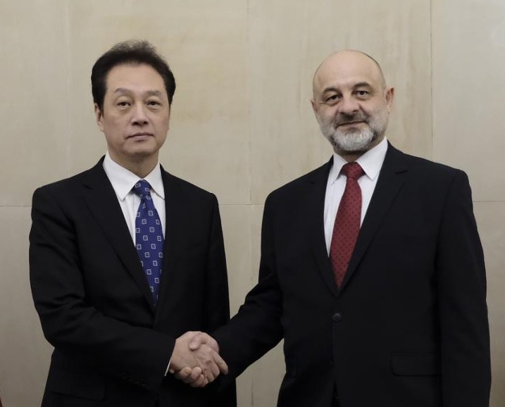 Chinese and Polish deputy ministers of foreign affairs: Wang Chao and Maciej Lang